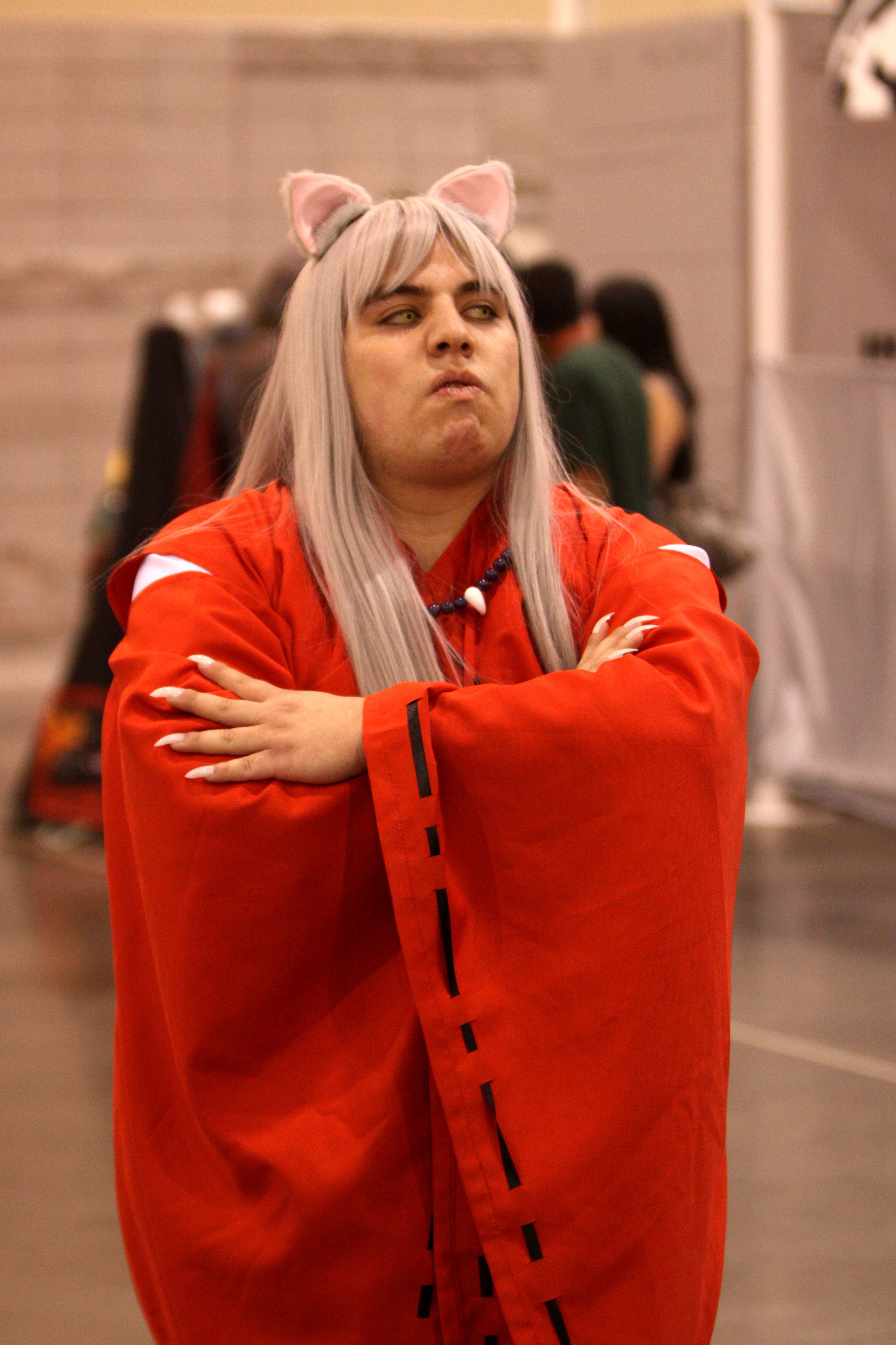 Inuyasha at the Phoenix Comicon in Phoenix, Arizona.